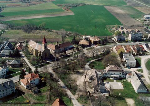 Ács, Hungary, aerialphotgraphy